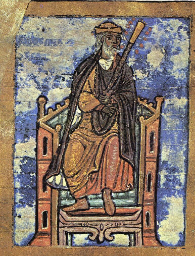 Alfonso II of Asturias